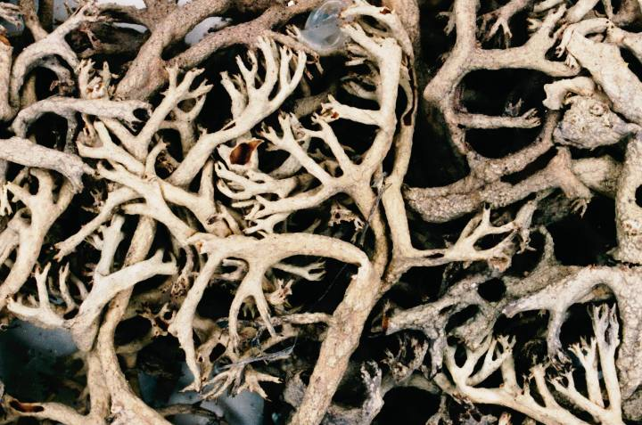 Cladonia amaurocraea (Flörke) Schaer., 1887 (photograph of a herbarium specimen) Growing in open sand of an old field disturbed by fire near Pellston Campground, N side of Robinson Road, Emmet County, Michigan, USA; collected and identified by Richard E. Riefner (No. 81-260, 26 Jun 1981); specimen is now in the Lichen Herbarium of the New York Botanical Garden.